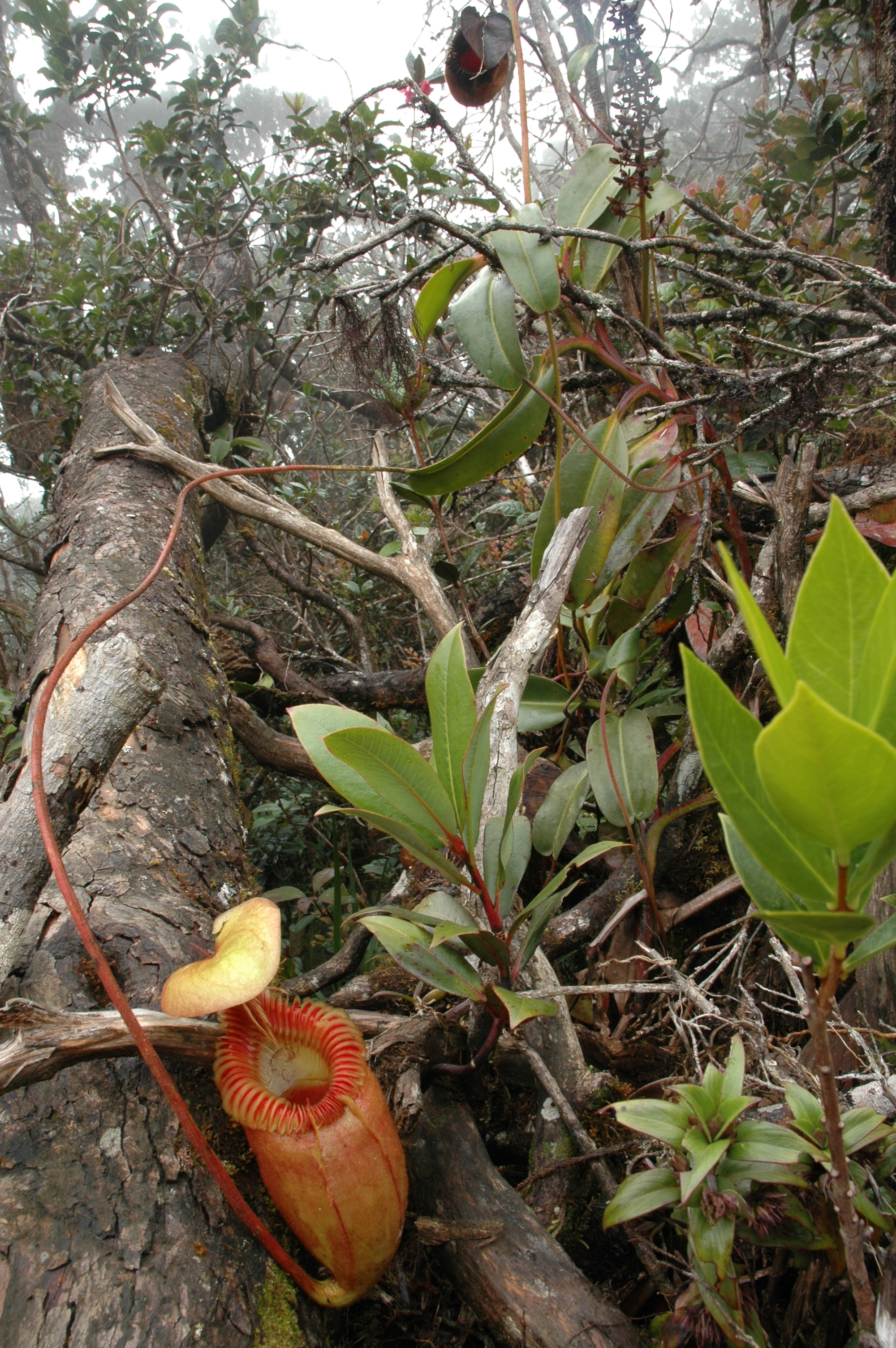 Nepenthes villosa Kinabalu by Jeremiah Harris